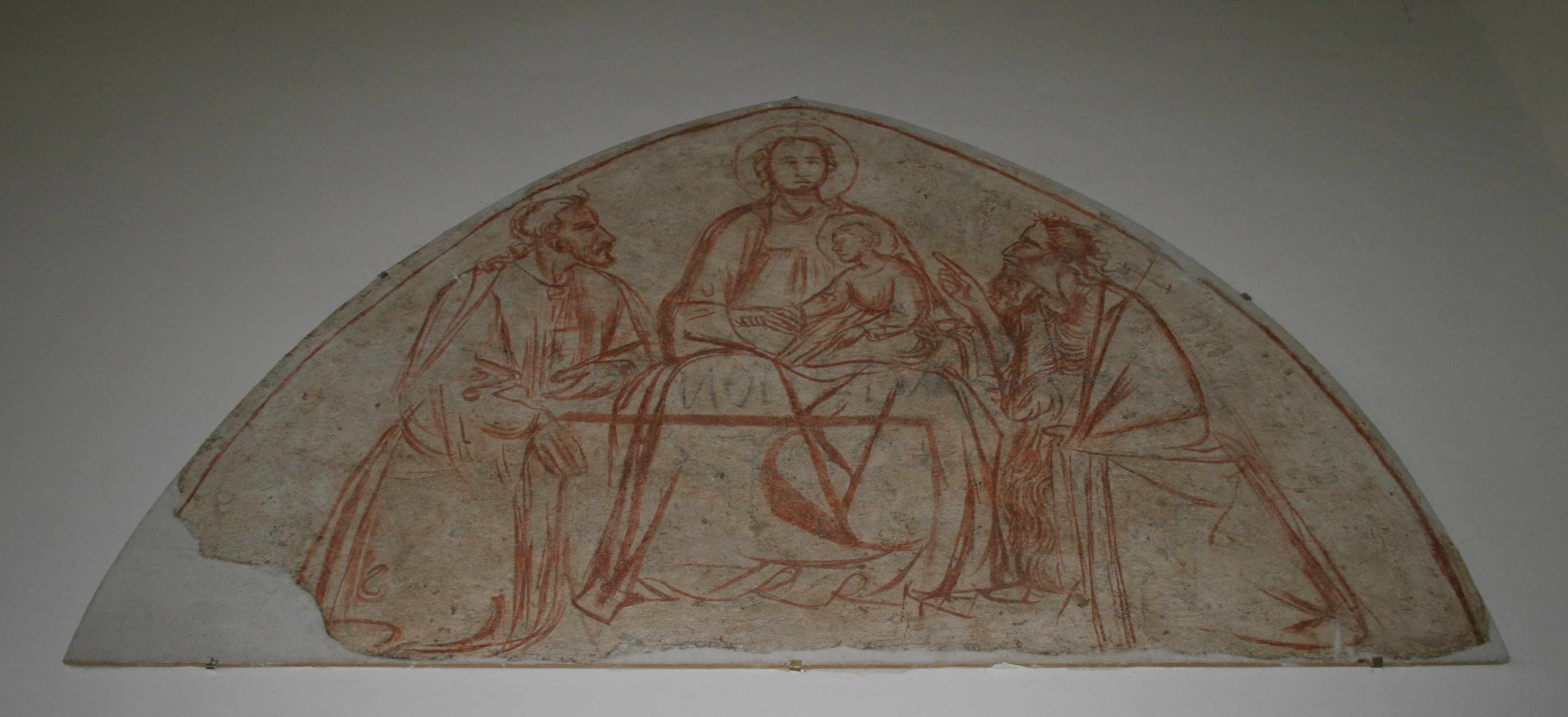 Sinopite of a fresco formerly in Cennano cloister of San Ludovico Convent